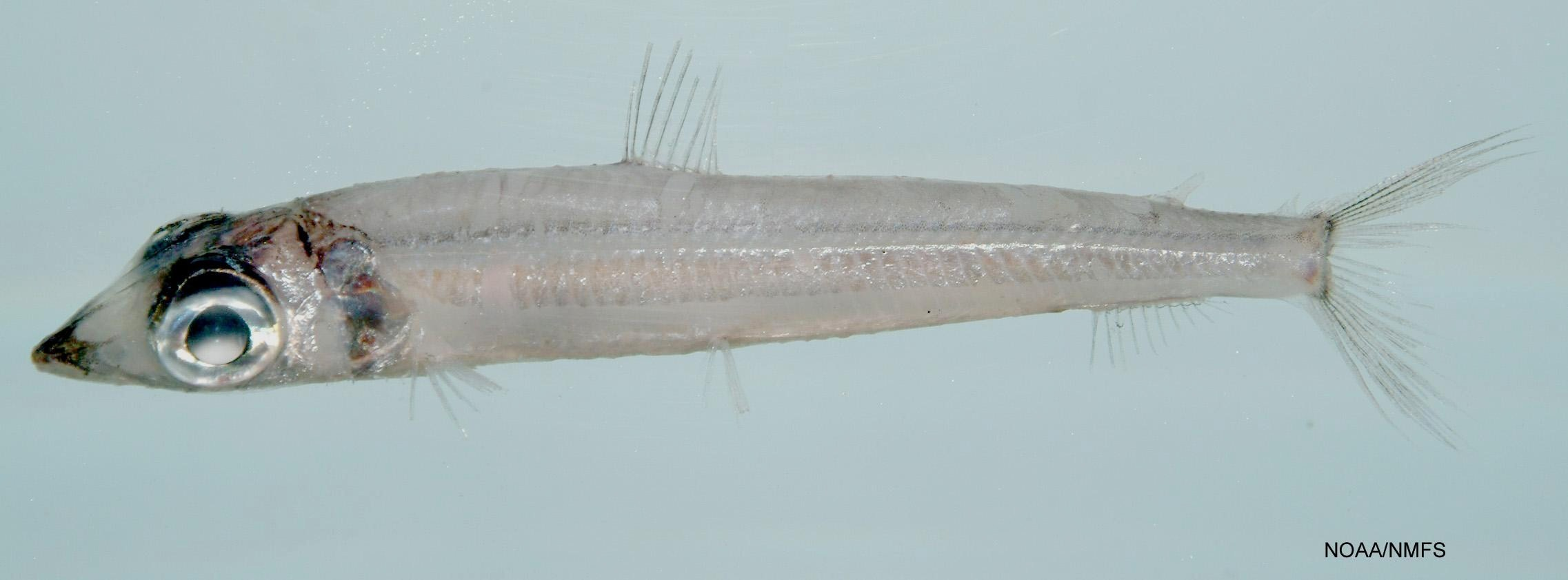 Striated argentine (Argentina striata), Gulf of Mexico. Credit: SEFSC Pascagoula Laboratory; Collection of Brandi Noble, NOAA/NMFS/SEFSC.